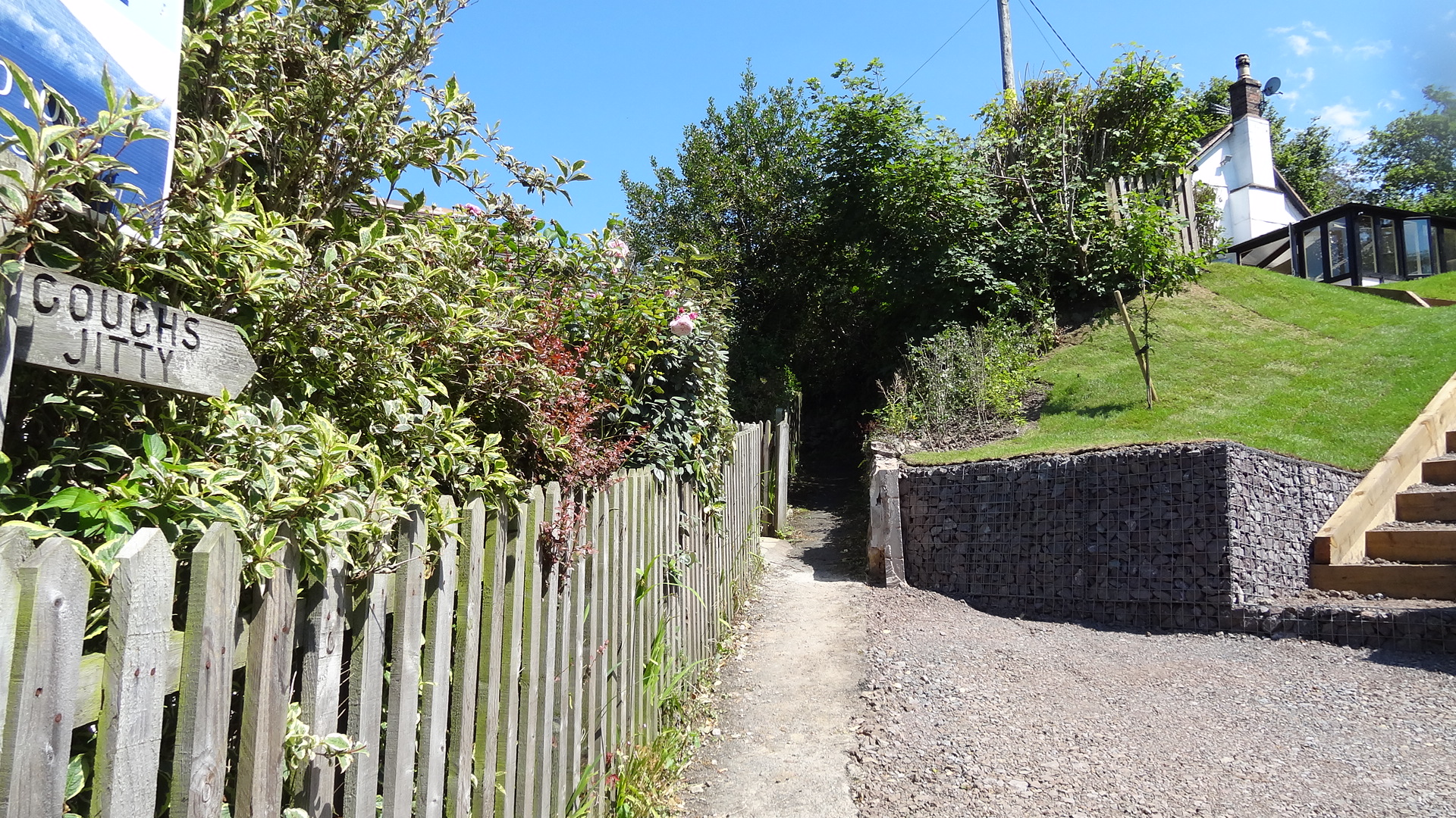 Entrance to Gough's Jitty, Broseley